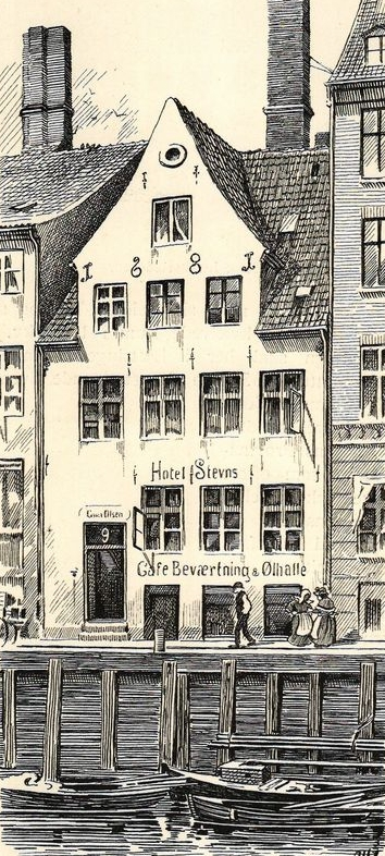 Hotel Stevns at Nyhavn 9 in Copenhagen, Denmark